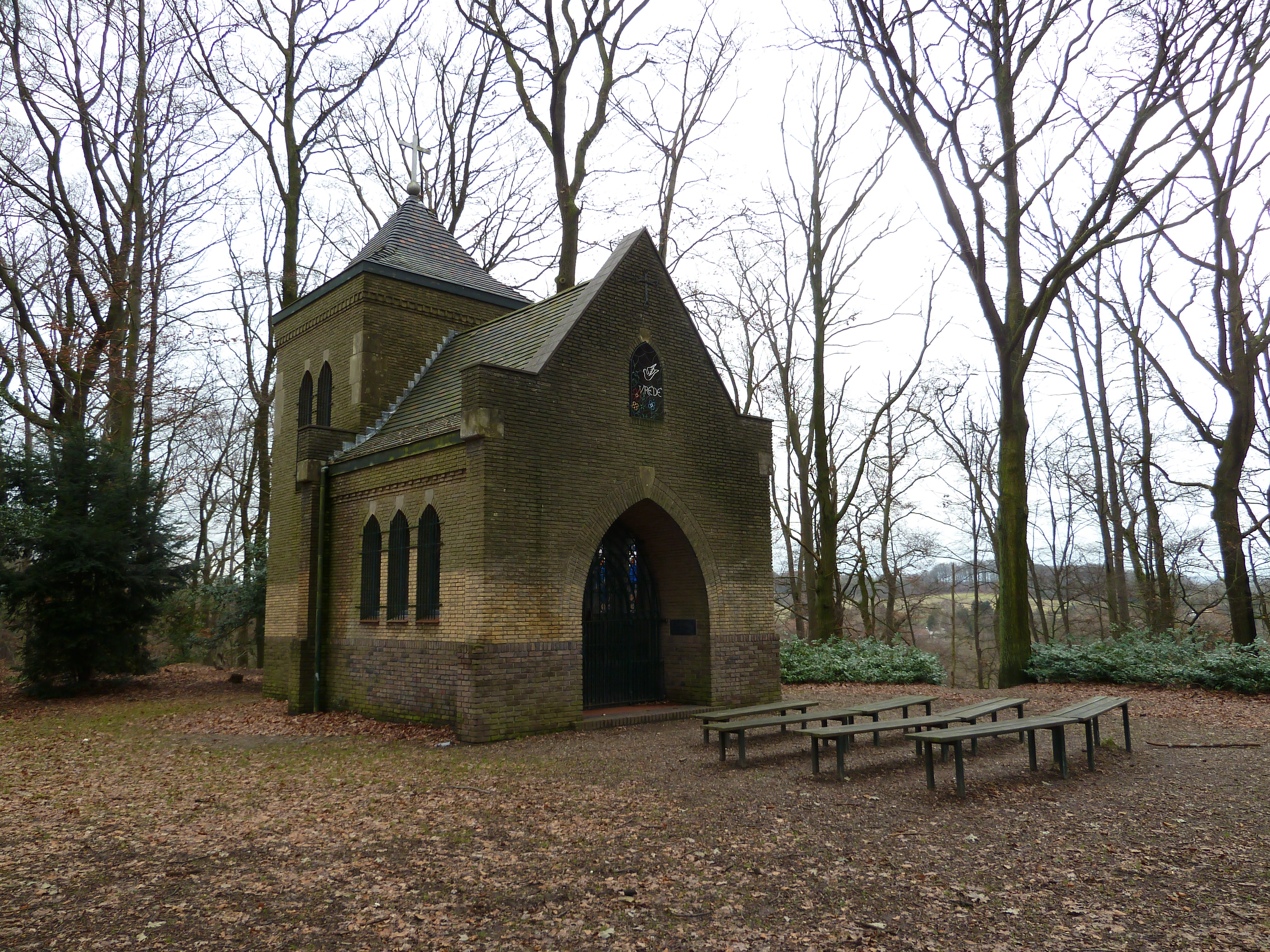 Chapel at the Krekelberg, Schinnen, Limburg, the Netherlands